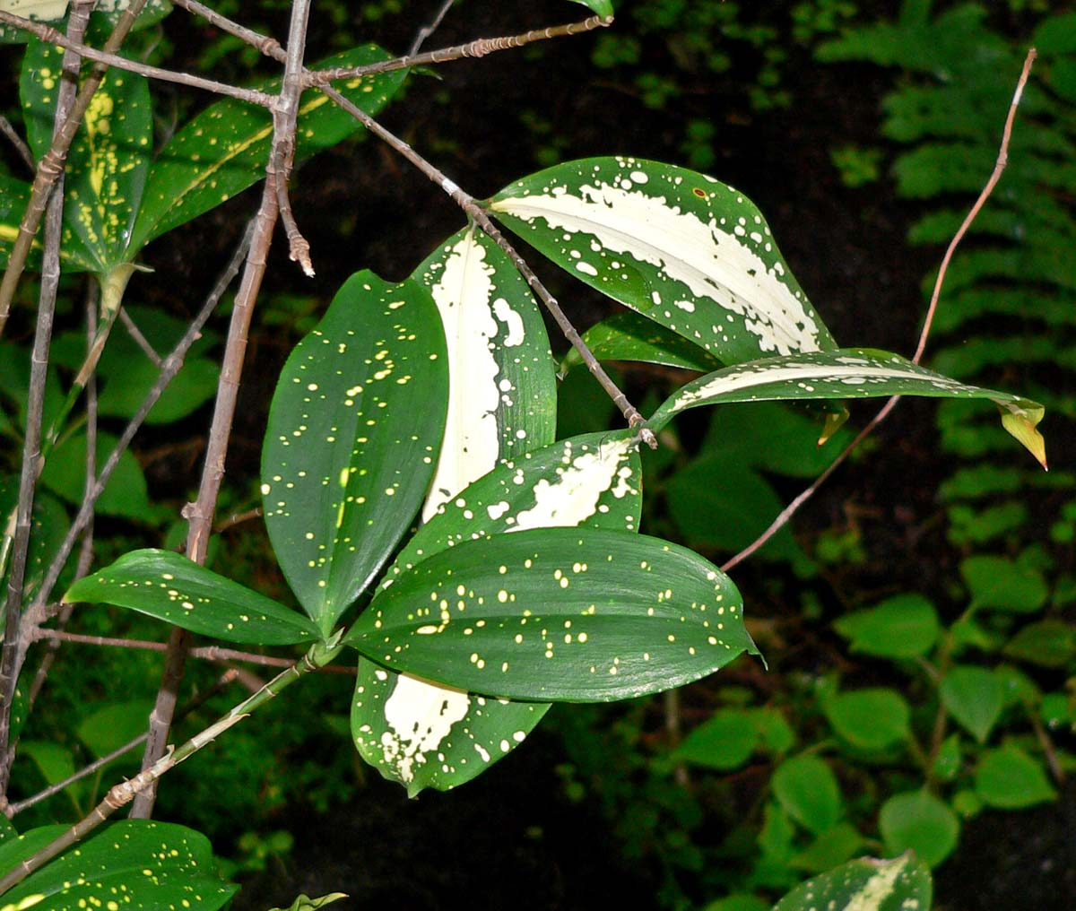 Photo of Dracaena godseffiana 'Juanita' at Balboa Park